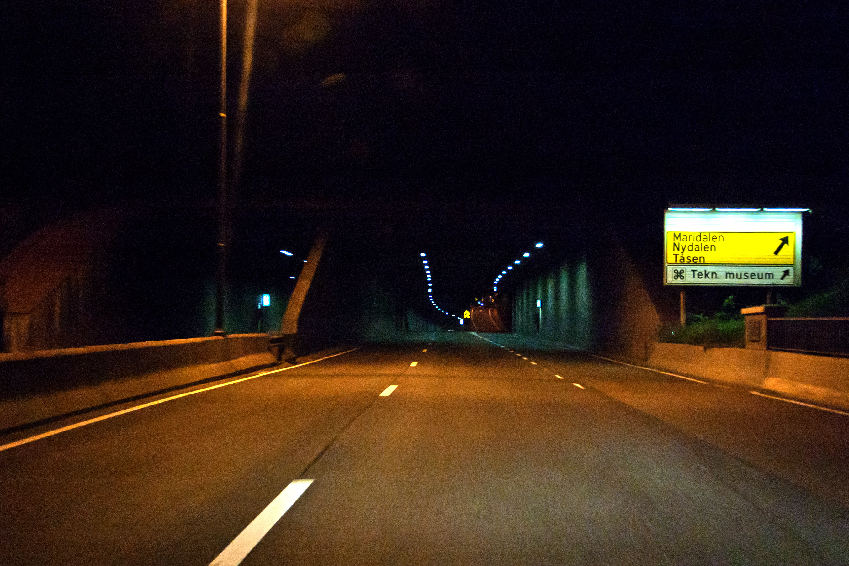 Tåsentunnelen, a road tunnel on national road 150 (Ring 3) in Oslo, Norway